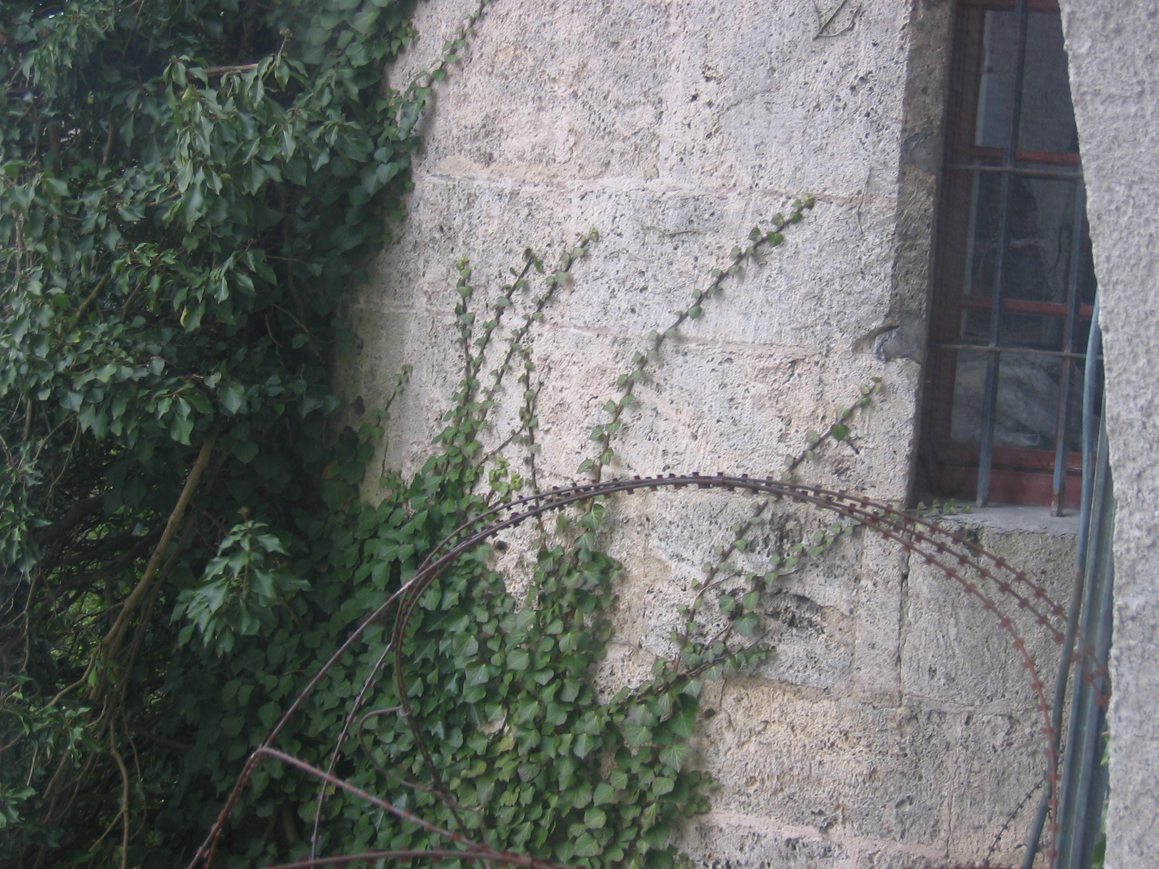 Barbed wire at Schloss Sigmaringen, a witness of the time the Vichy Regime fled to Germany